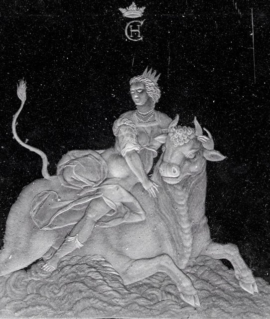 Wheel-engraved panel by Caspar Lehmann, 1608